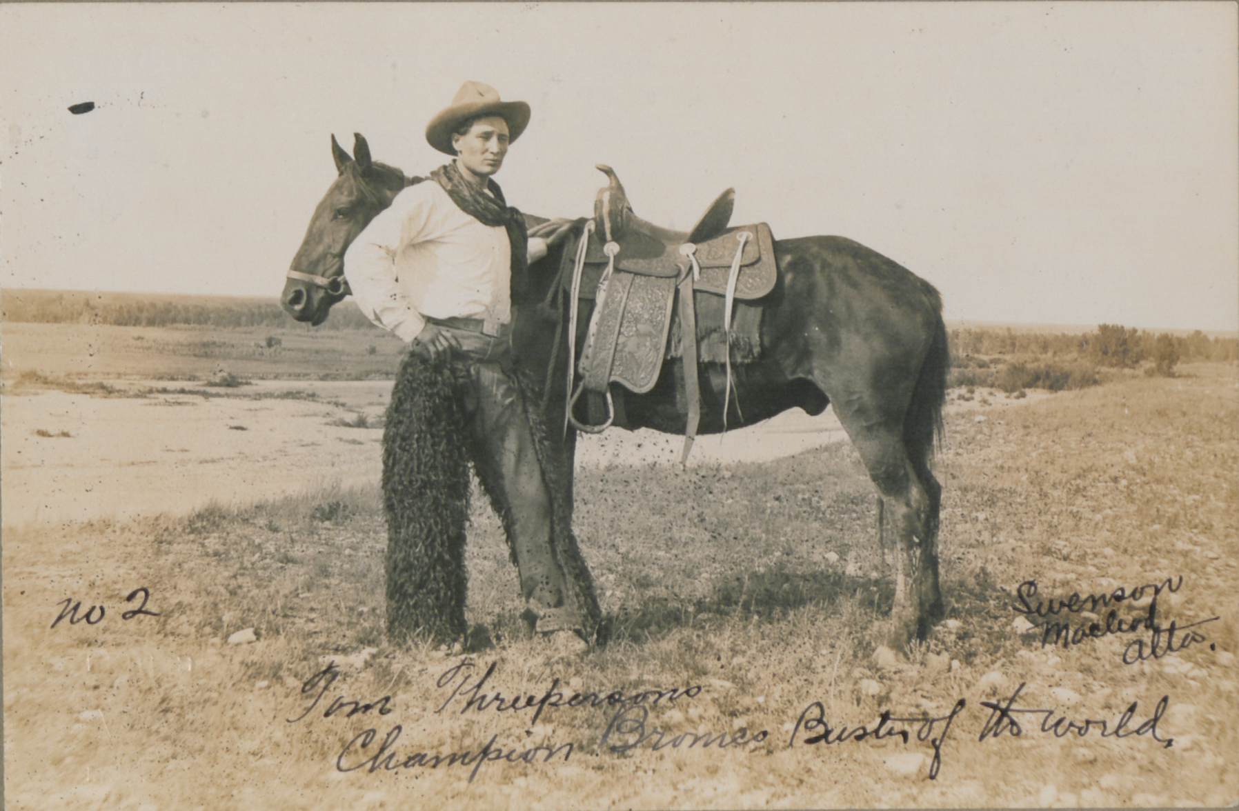 Tom Threepersons, champion bronco buster of the world. No. 2.